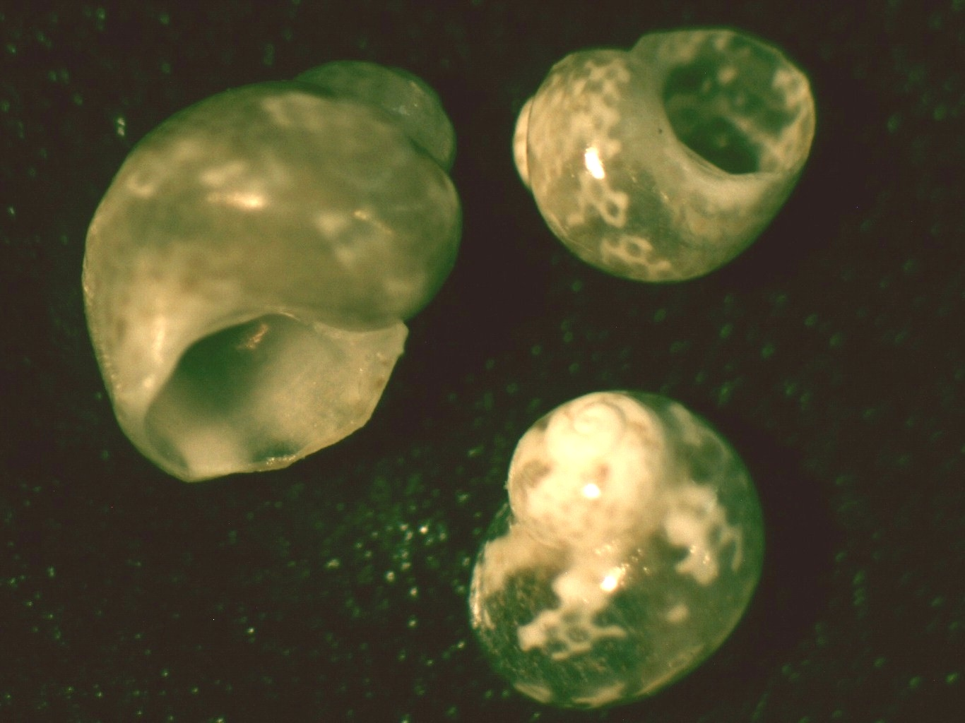 Eulithidium bellum (M. Smith, 1937), a sea snail from the family Phasianellidae; Florida